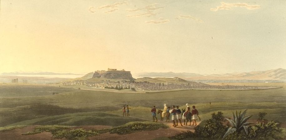 Athens from the Foot of Mount Anchesmus